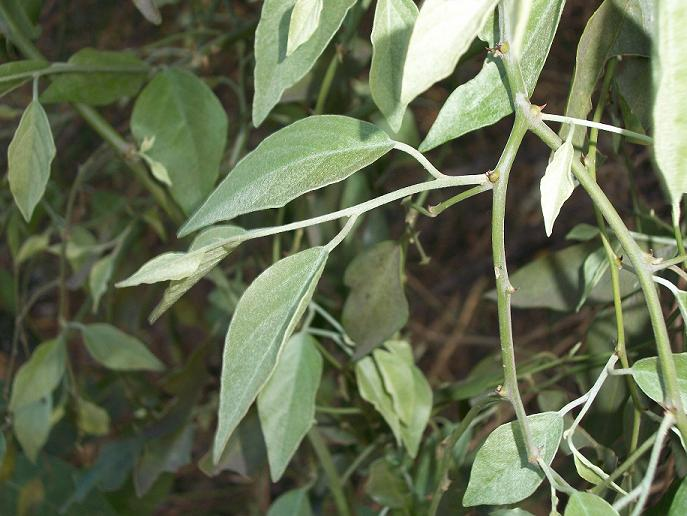 Capparis fascicularis var. zeyheri from Amanzimtoti, KwaZulu-Natal, South Africa.